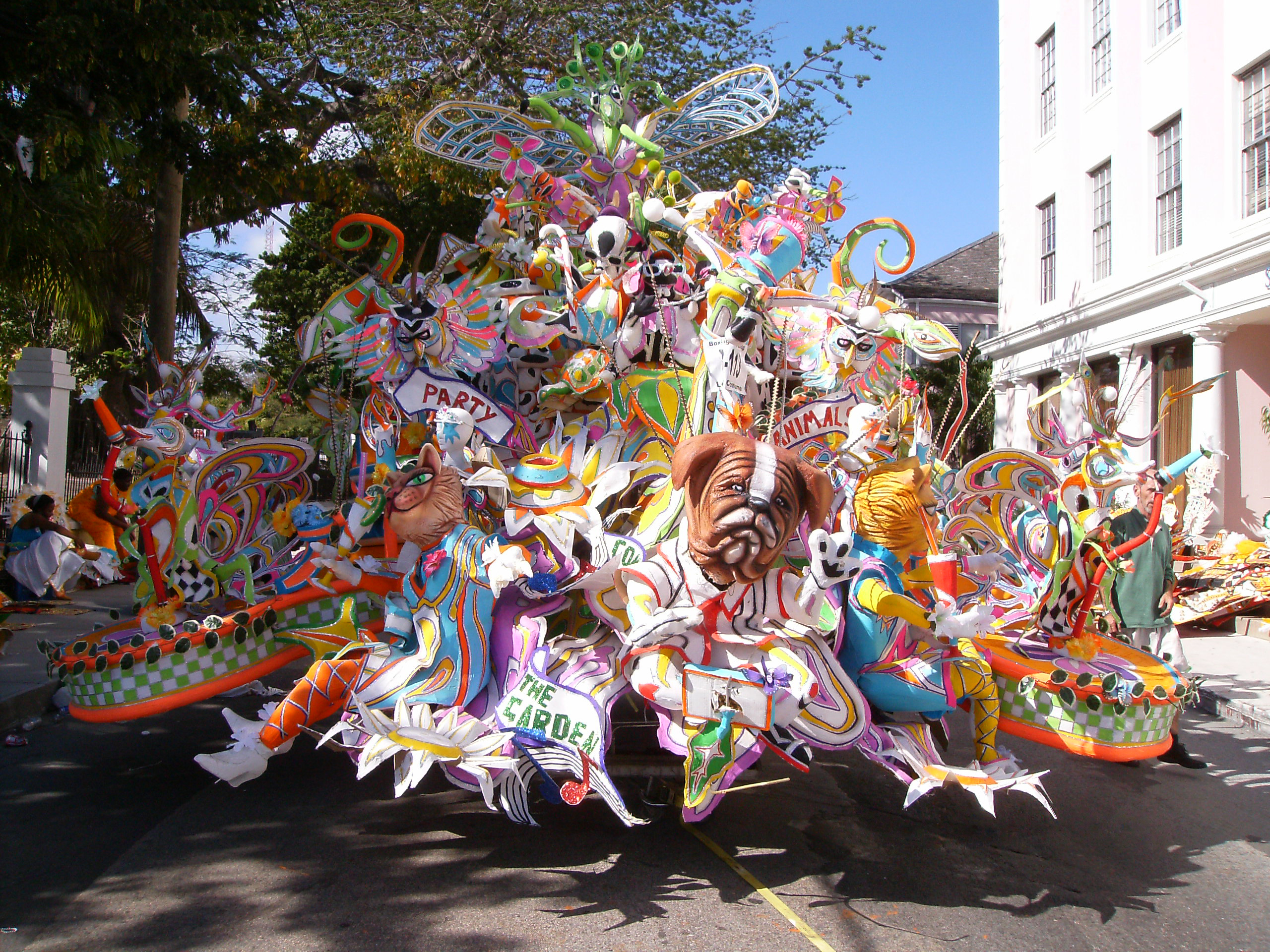 Junkanoo lead costume piece.